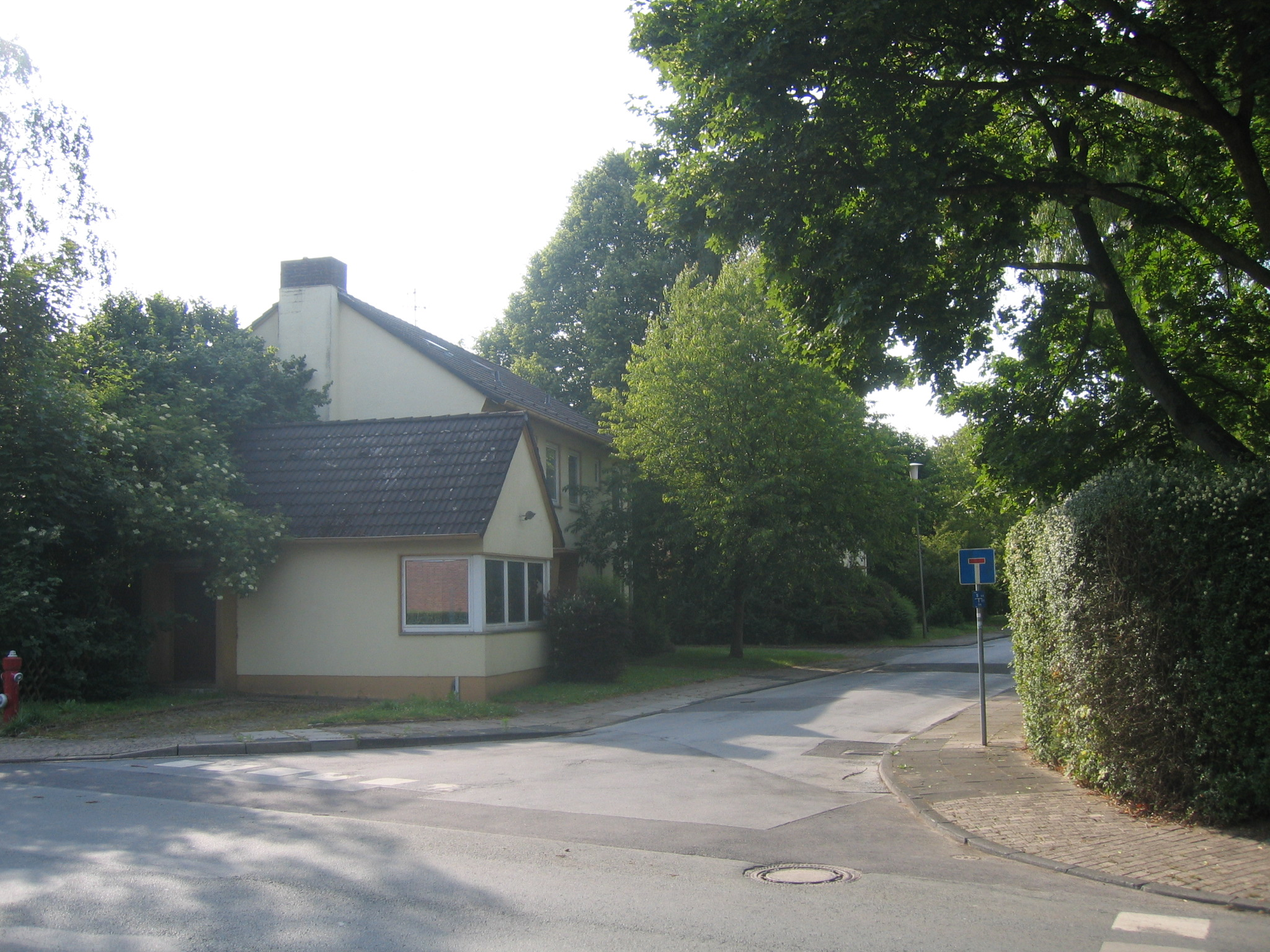 The British Army married officers compound at Engelstraße in Bünde, District of Herford, North Rhine-Westphalia, Germany. During cold war Red Army's Military Liaison Mission SOXMIS (Soviet Military Liaison Mission Germany, short SOXMIS or Soviet Military Mission BAOR, abbr. SMM BAOR) was based within the british compound. Hence, British and Sovjet Soldiers lived "next door". SOXMIS was a notorius base for soviet spy activities within the allied sectors. After cold war british soldiers or German civilians moved in. Nearly all military leftovers from the soviet era war removed, a British watch post (shown on the left hand side of the dead end road) to control Russian activities and protect the own officiers remained unmanned. Today, the history of this special Cold War place is fairly unknown.